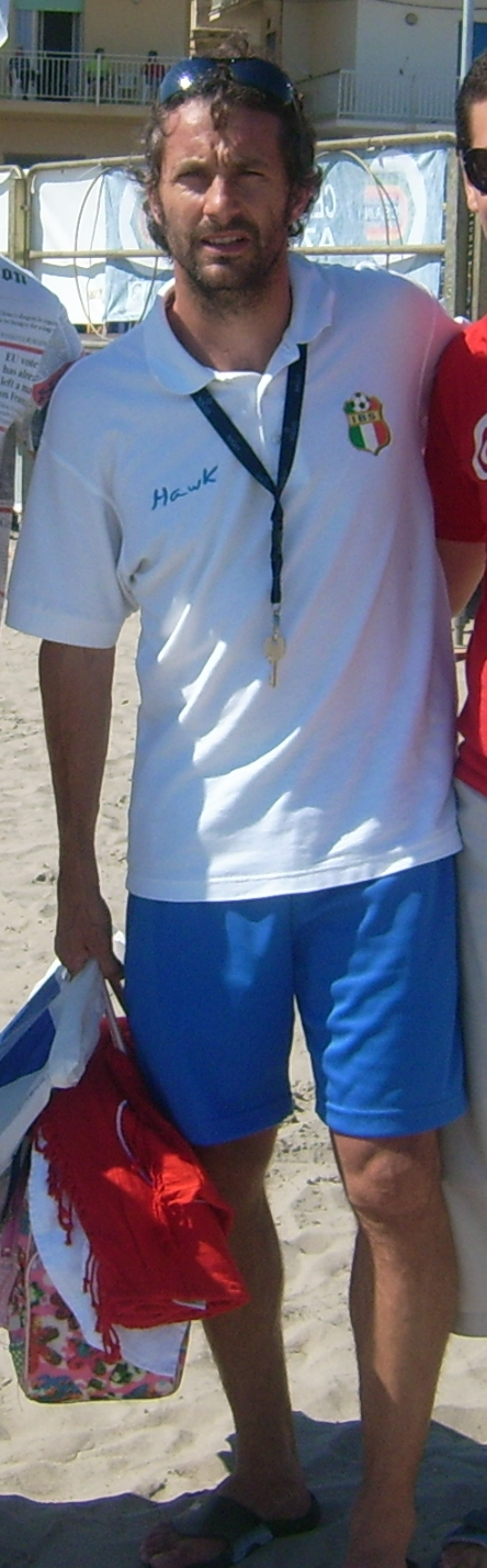 Maurizio Ganz before Beach Soccer's match at Sciacca (Ag) Sicily